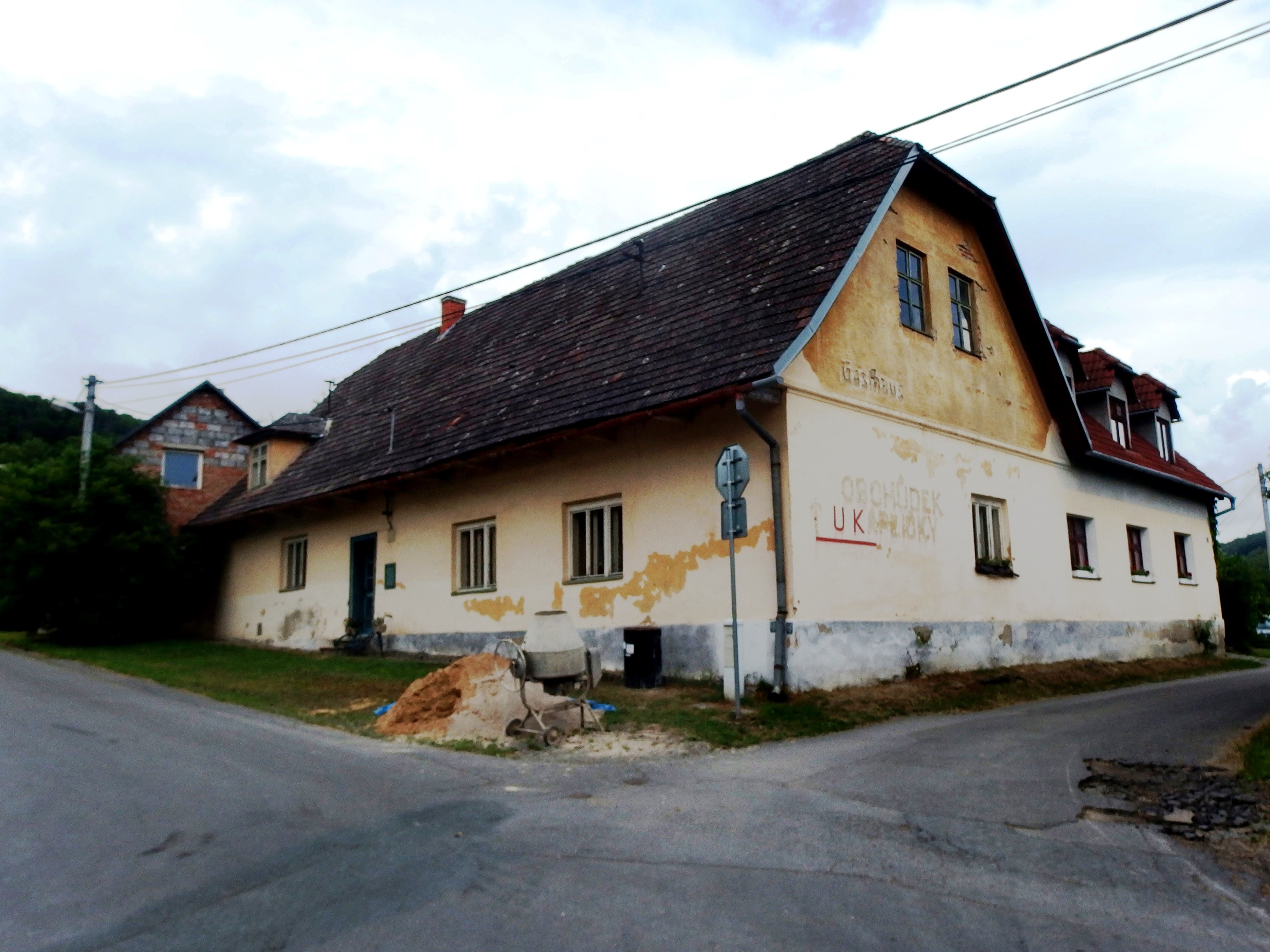 Odry, Nový Jičín District, Czech Republic, part Klokočůvek.